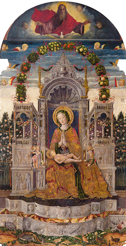 Antonio da Negroponte, Virgin and Child Enthroned, inside the church of San Francesco della Vigna in Venice.